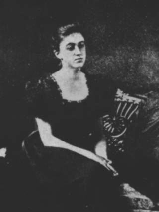 This work is in the public domain in its country of origin and other countries and areas where the copyright term is the author's life plus 70 years or less. You must also include a United States public domain tag to indicate why this work is in the public domain in the United States. Note that a few countries have copyright terms longer than 70 years: Mexico has 100 years, Jamaica has 95 years, Colombia has 80 years, and Guatemala and Samoa have 75 years. This image may not be in the public domain in these countries, which moreover do not implement the rule of the shorter term. Côte d'Ivoire has a general copyright term of 99 years and Honduras has 75 years, but they do implement the rule of the shorter term. Copyright may extend on works created by French who died for France in World War II (more information), Russians who served in the Eastern Front of World War II (known as the Great Patriotic War in Russia) and posthumously rehabilitated victims of Soviet repressions (more information). This file has been identified as being free of known restrictions under copyright law, including all related and neighboring rights. This media file is in the public domain in the United States. This applies to U.S. works where the copyright has expired, often because its first publication occurred prior to January 1, 1923. See this page for further explanation. This image might not be in the public domain outside of the United States; this especially applies in the countries and areas that do not apply the rule of the shorter term for US works, such as Canada, Mainland China (not Hong Kong or Macao), Germany, Mexico, and Switzerland. The creator and year of publication are essential information and must be provided. See Wikipedia:Public domain and Wikipedia:Copyrights for more details.